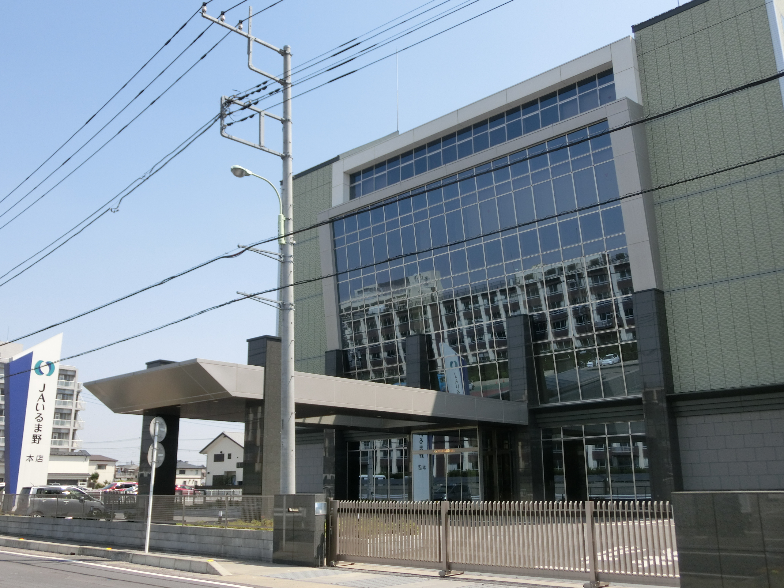 JA Irumano Headquarters